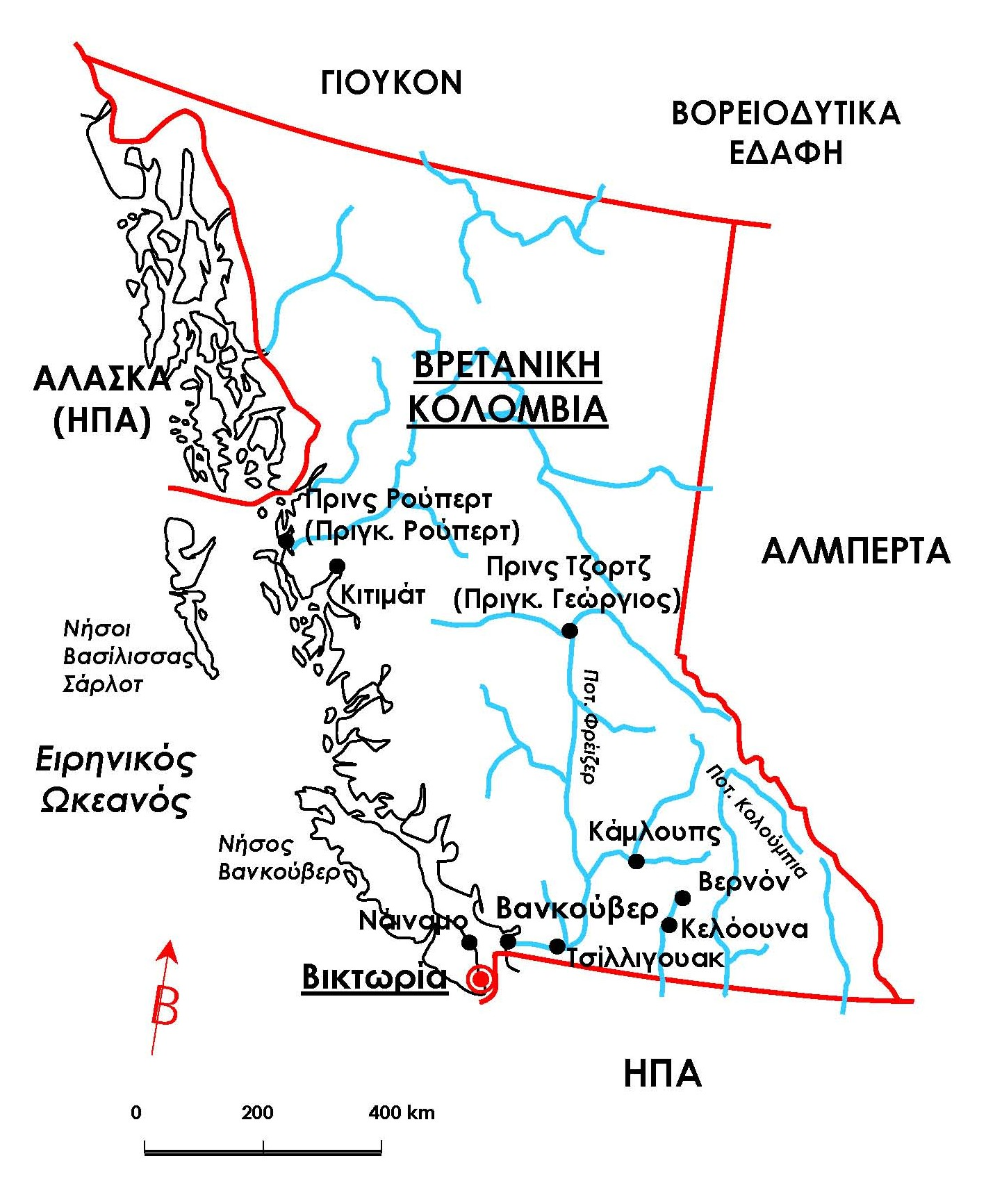 Greek map of British Columbia